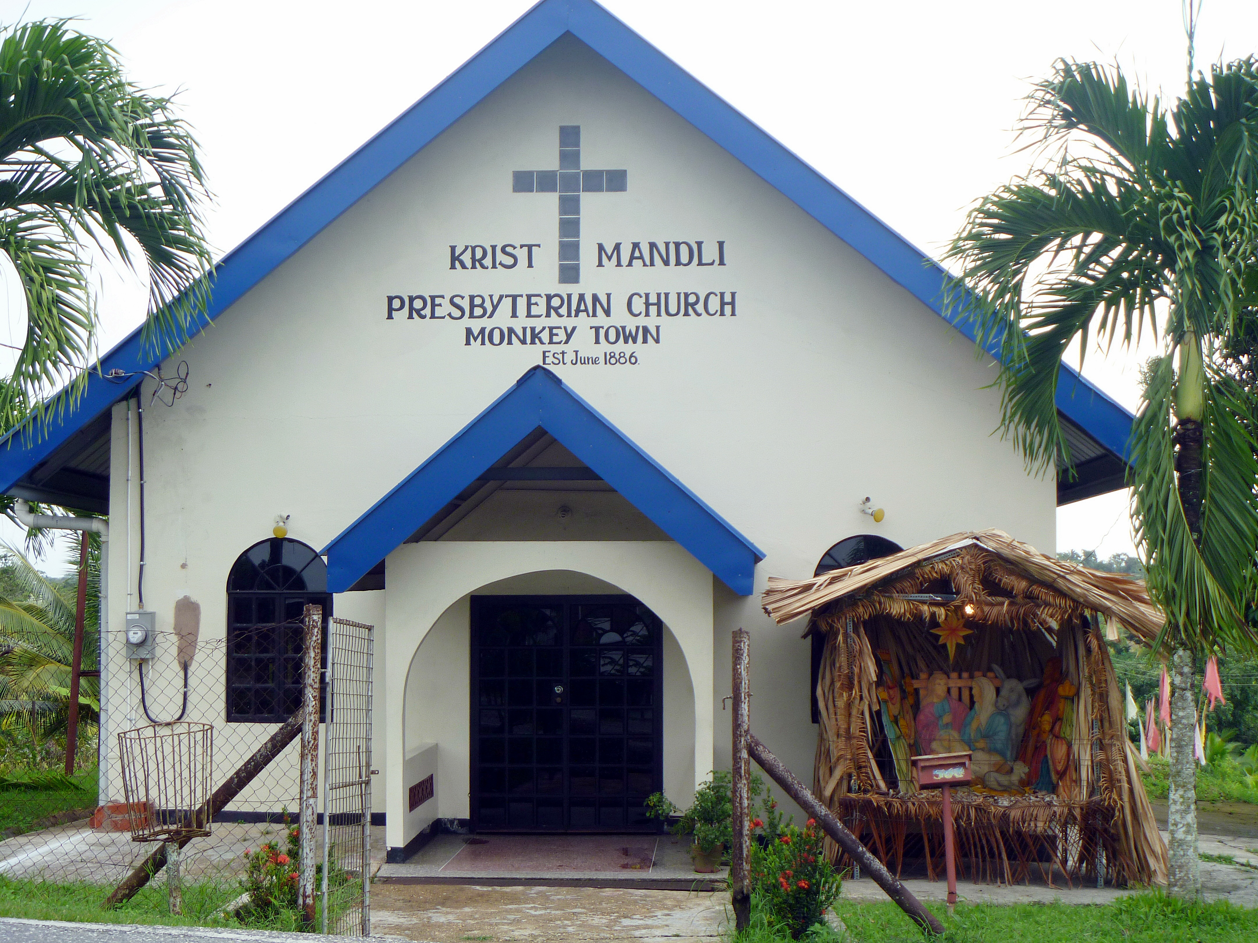 Presbyterian clergy came to the islands during the period of East Indian indentureship in the 19th and 20th centuries. The Canadian Mission is well documented in the history books of Trinidad.